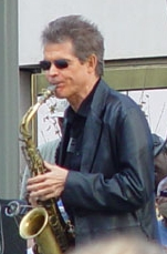 Photo of David Sanborn in concert in San Francisco's Union Square. Cropped to show only Sanborn. The full uncropped photo is at: File:David Sanborn in San Francisco.jpg